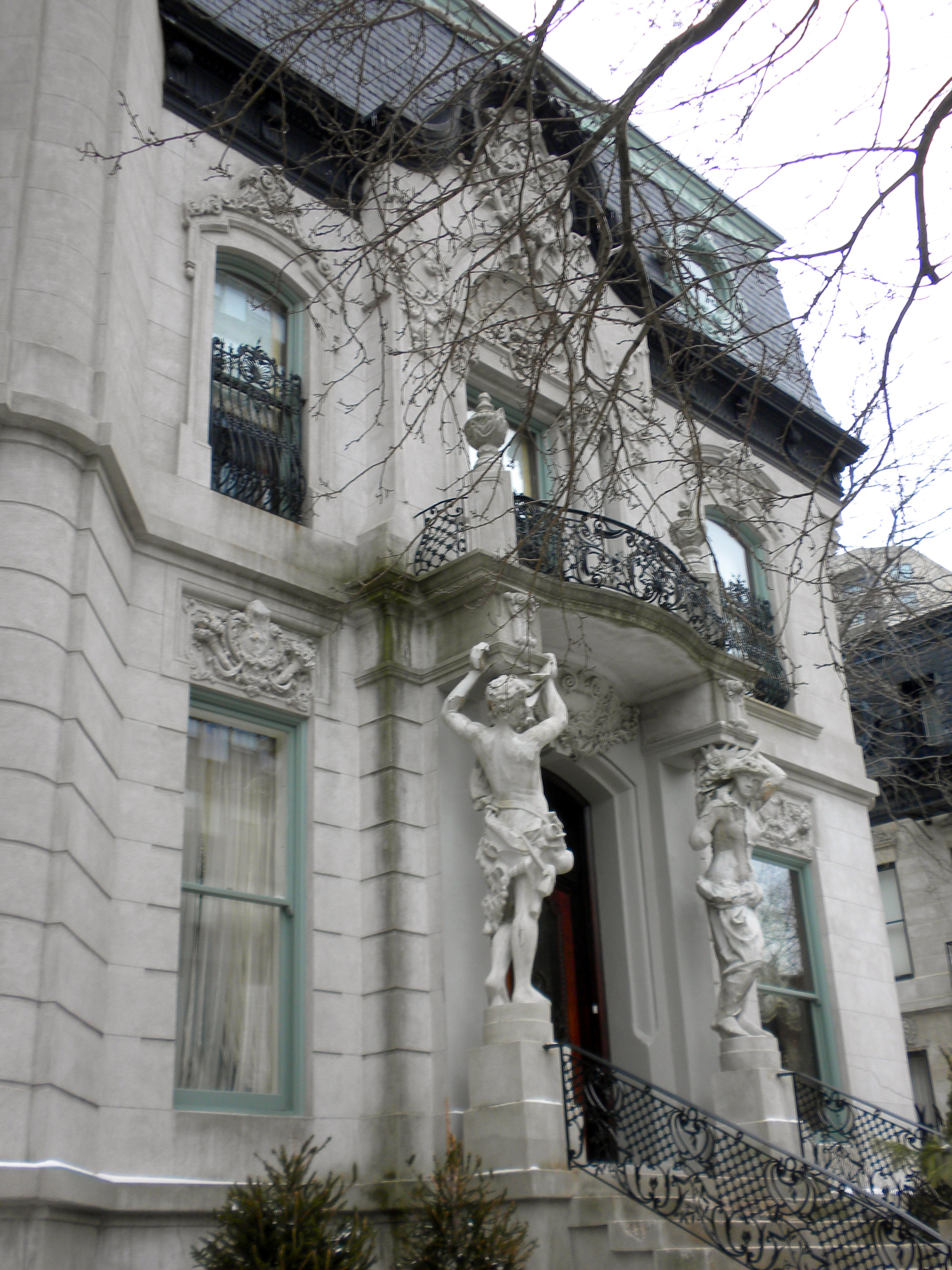 Francis J. Dewes House on NRHP since August 14, 1973 at 503 W. Wrightwood Avenue in the Lincoln Park neighborhood of Chicago